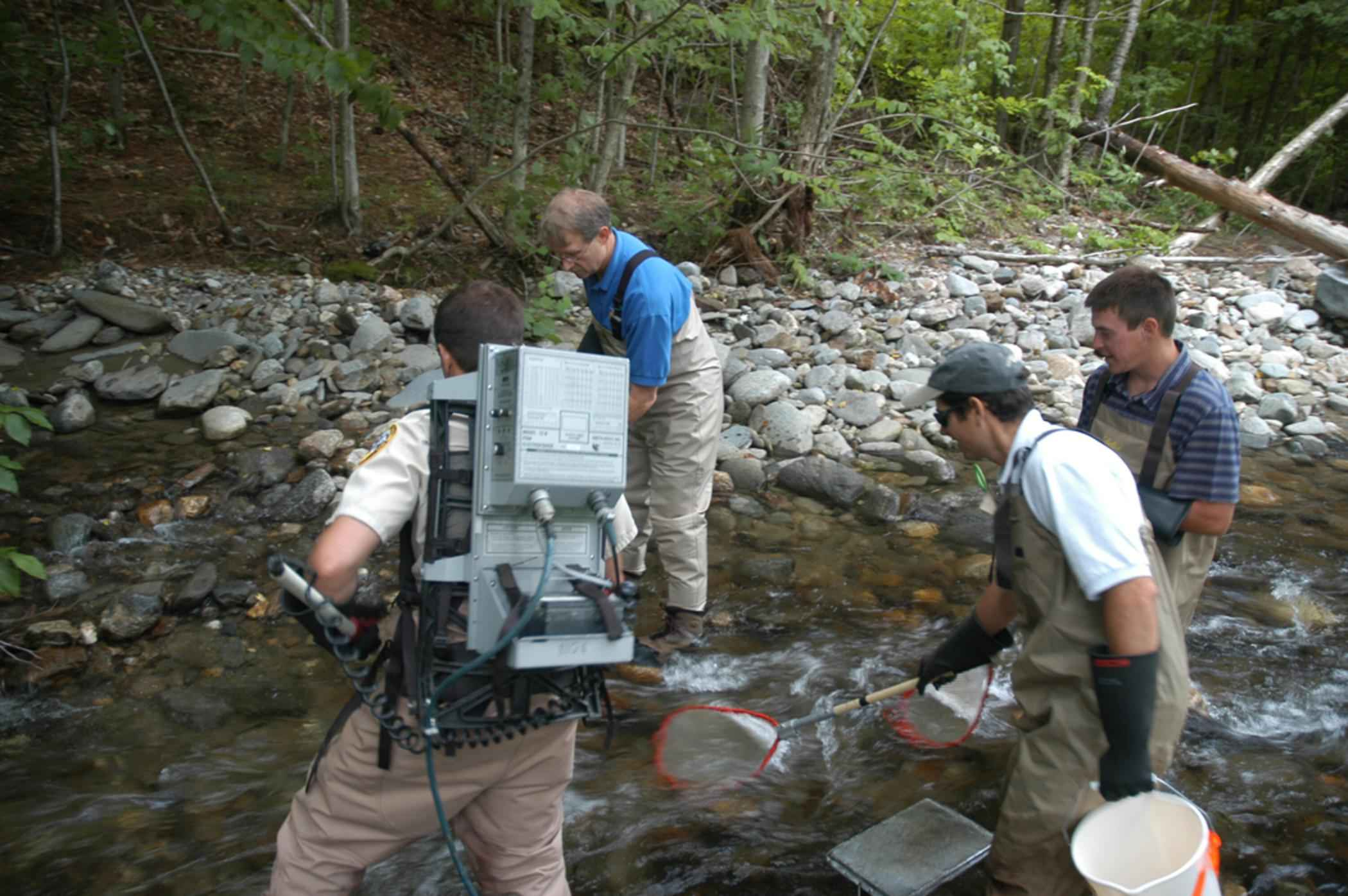 Image title: Fisherman with equipment for electric shocks on his back catches fish Image from Public domain images website